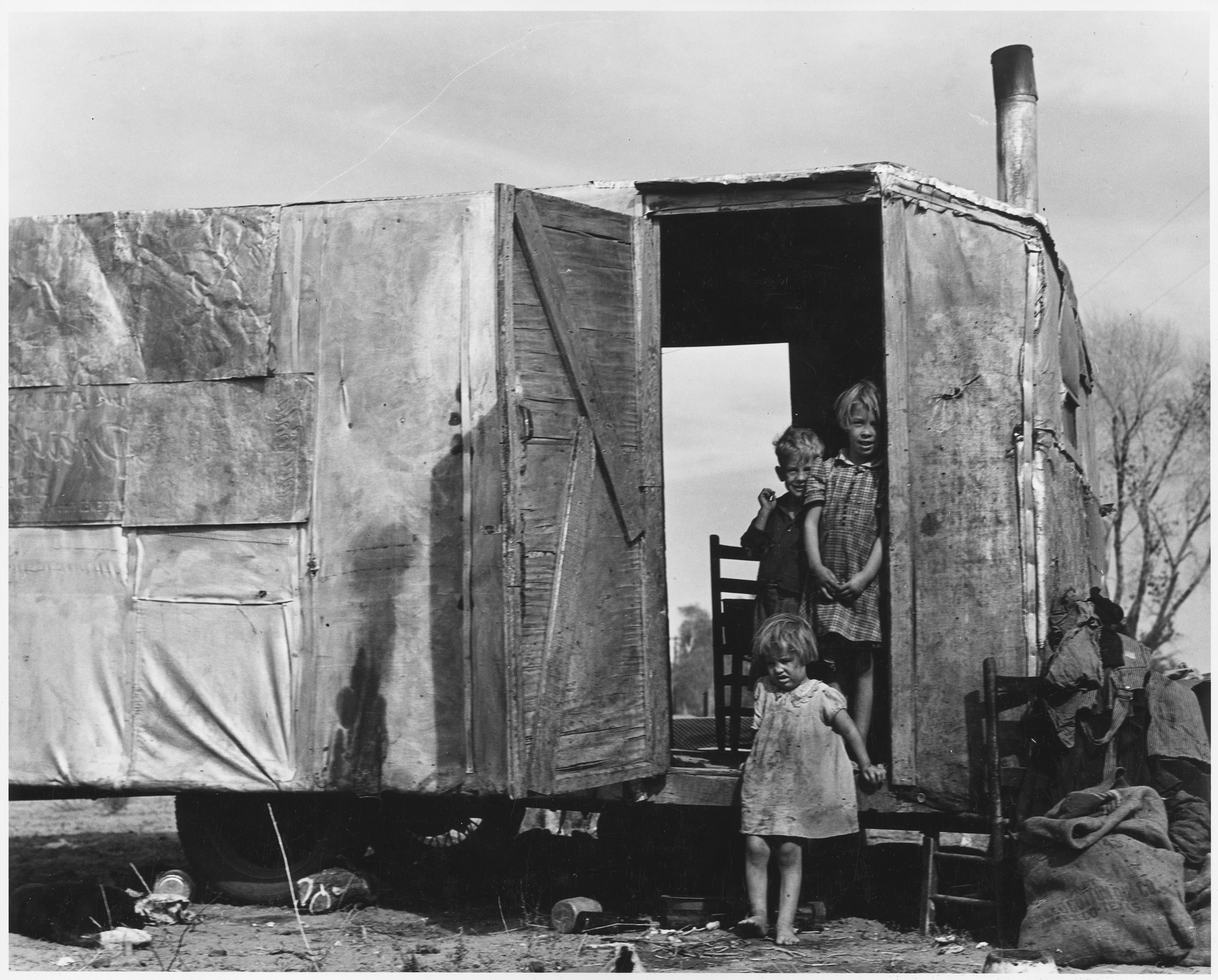 Scope and content: Full caption reads as follows: On Arizona Highway 87, south of Chandler. Maricopa County, Arizona. Children in a democracy. A migratory family living in a trailer in an open field. No sanitation, no water. They came from Amarillo, Texas. Pulled bolls near Amarillo, picked cotton near Roswell, New Mexico, and in Arizona. Plan to return to Amarillo at close of cotton picking season for work on WPA.